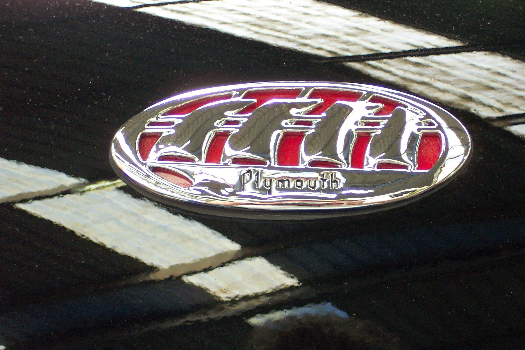 Plymouth bonnet badge. Taken at the 2003 New South Wales All Chrysler Day, held at Fairfield Showground, Prairiewood, Sydney.